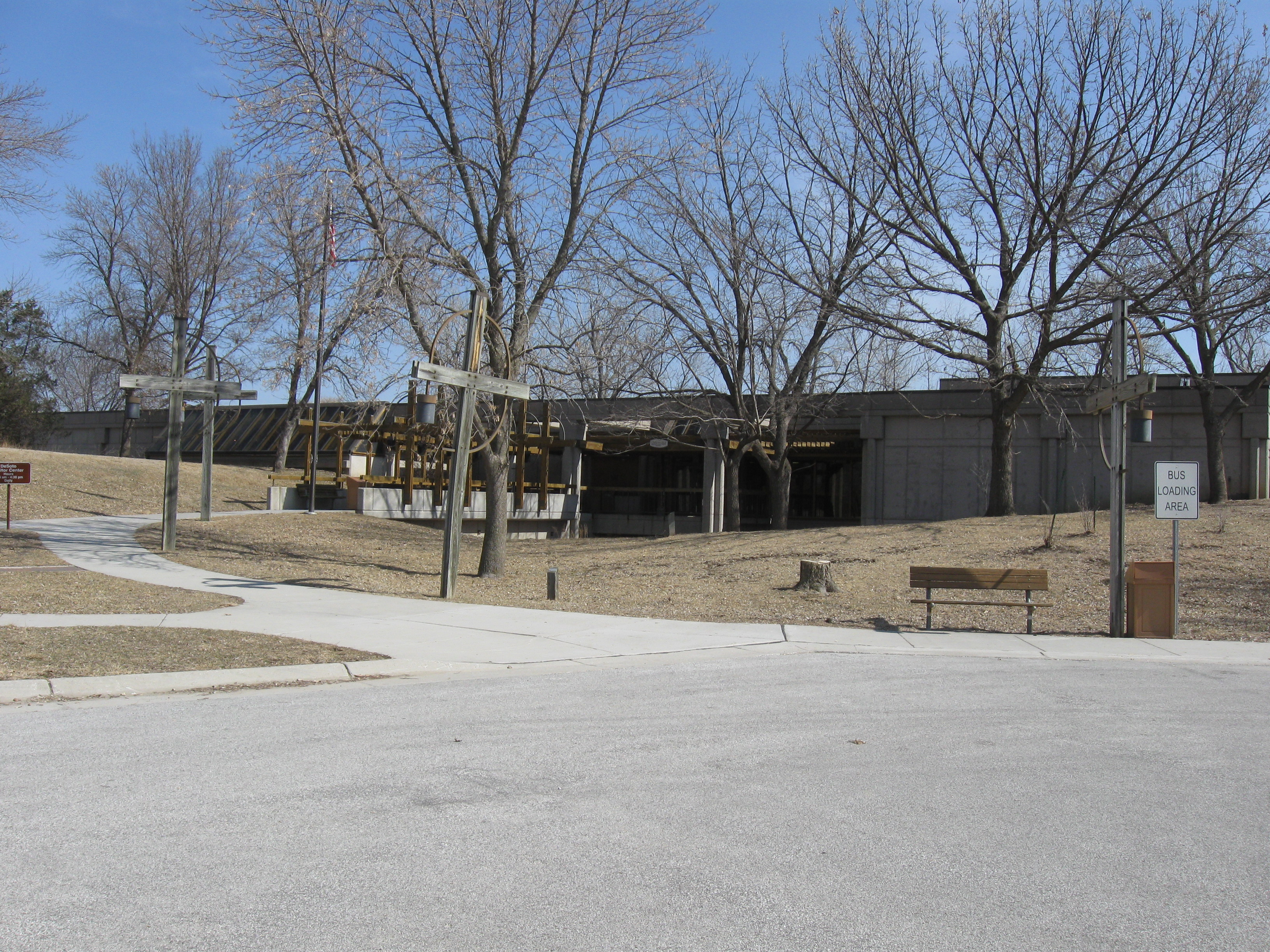 Museum at the Desoto National Wildlife Refuge, housing the Steamboat Bertrand collections.